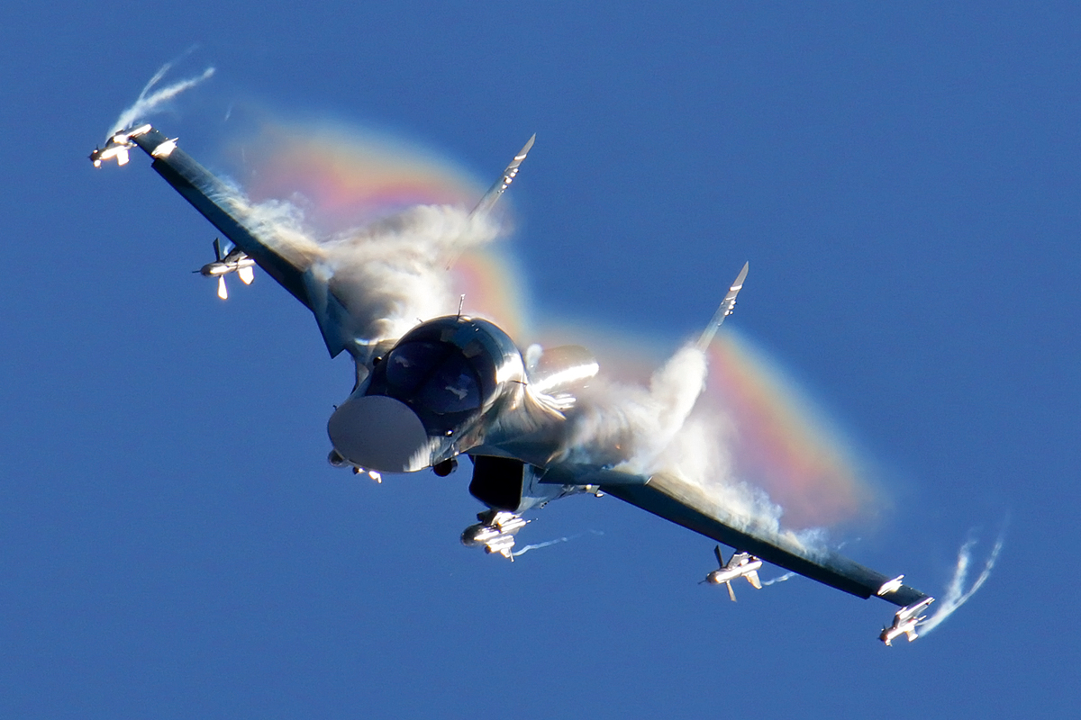 Sukhoi Su-34 flight display at 2015 MAKS